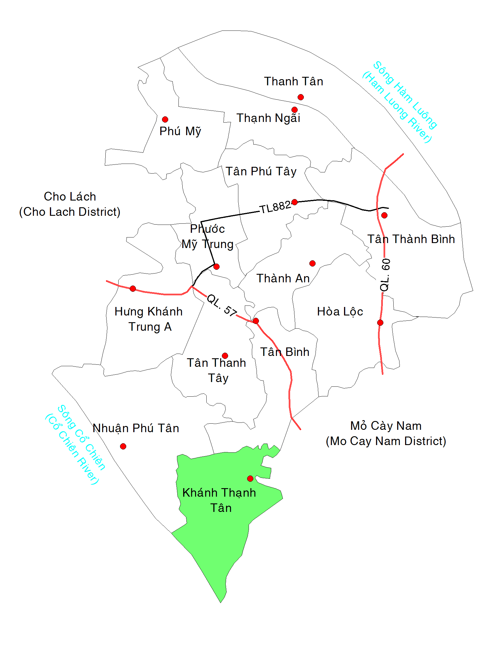 Locaiton map of Khánh Thạnh Tân commune, Mo Cay Bac District, Ben Tre province, Vietnam